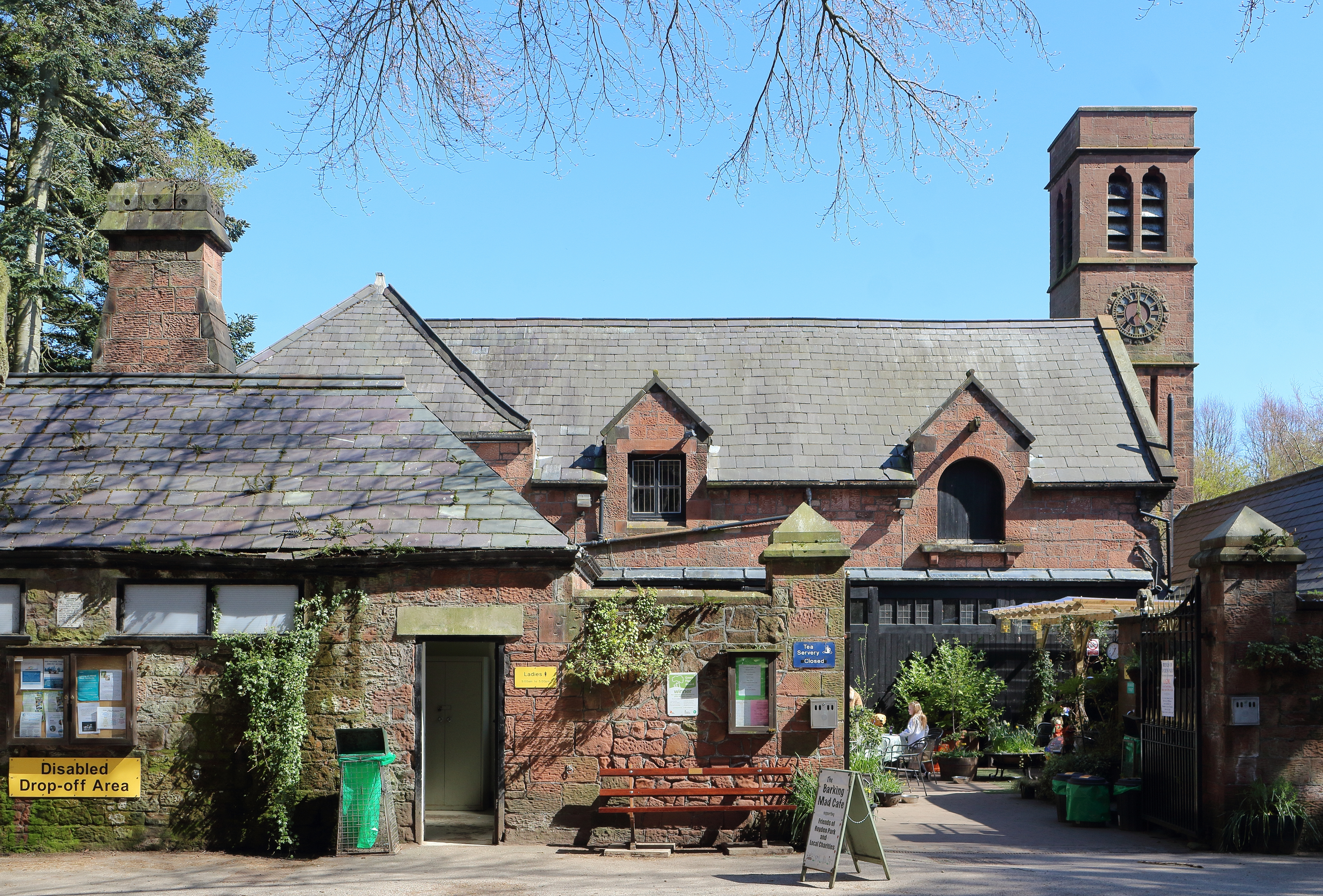 Frontage of the Coach House from its car park, slightly closer to avoid the tree.